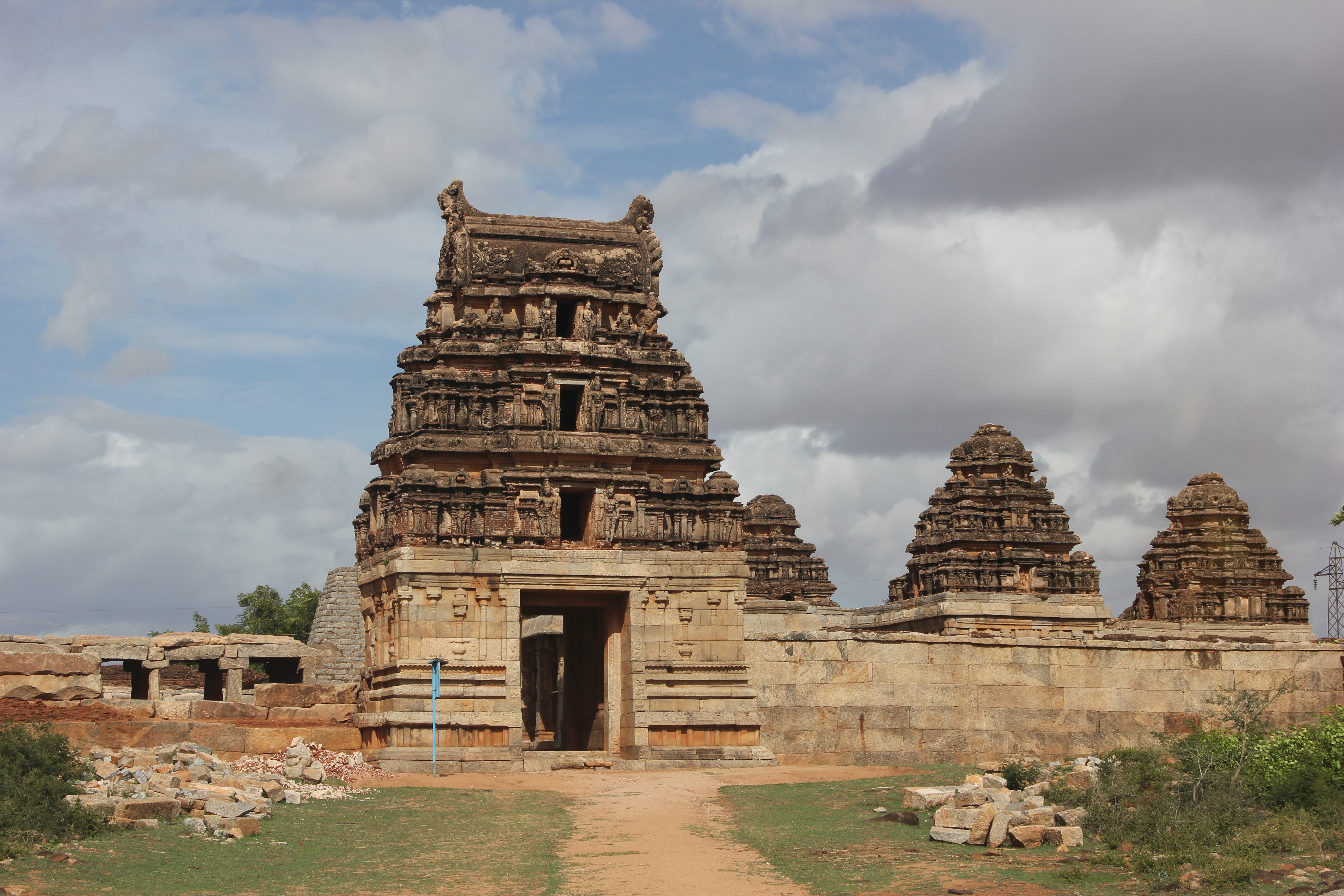 This photograph was taken by me at the Shiva temple in Timmalapura, Bellary district, Karnataka state, India. The temple was constructed in 1539 A.D. by a local chief during the rule of King Achyuta Raya of the Vijayanagara Empire